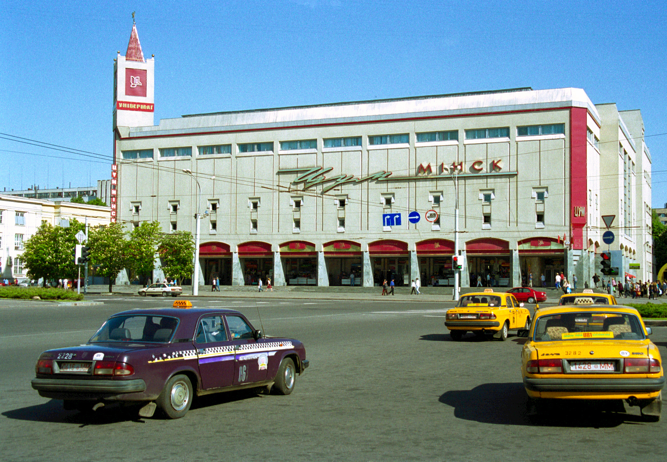 Central General Store, Minsk, Belarus.